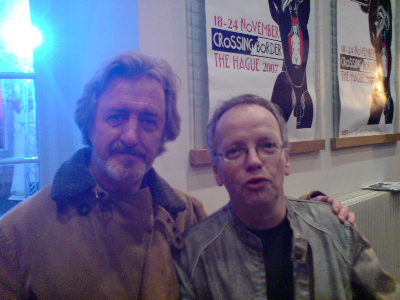 Louis Behre en Erik Quint @ Crossing Border, 2007